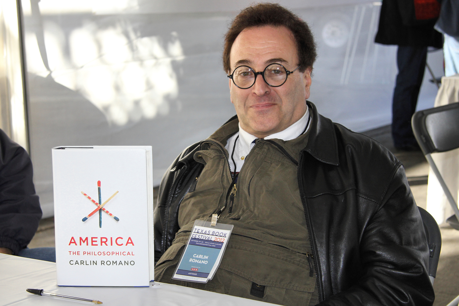 Carlin Romano at the 2012 Texas Book Festival, Austin, Texas, United States.